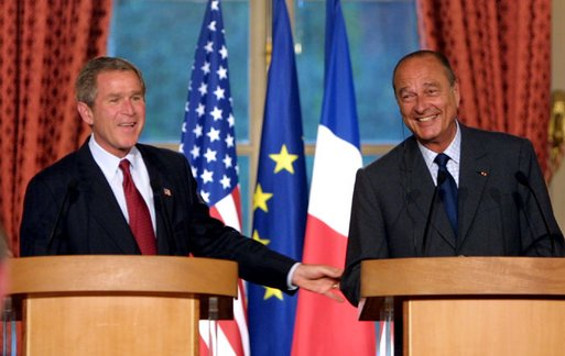 Presidents George W. Bush and Jacques Chirac on May 26, 2002.